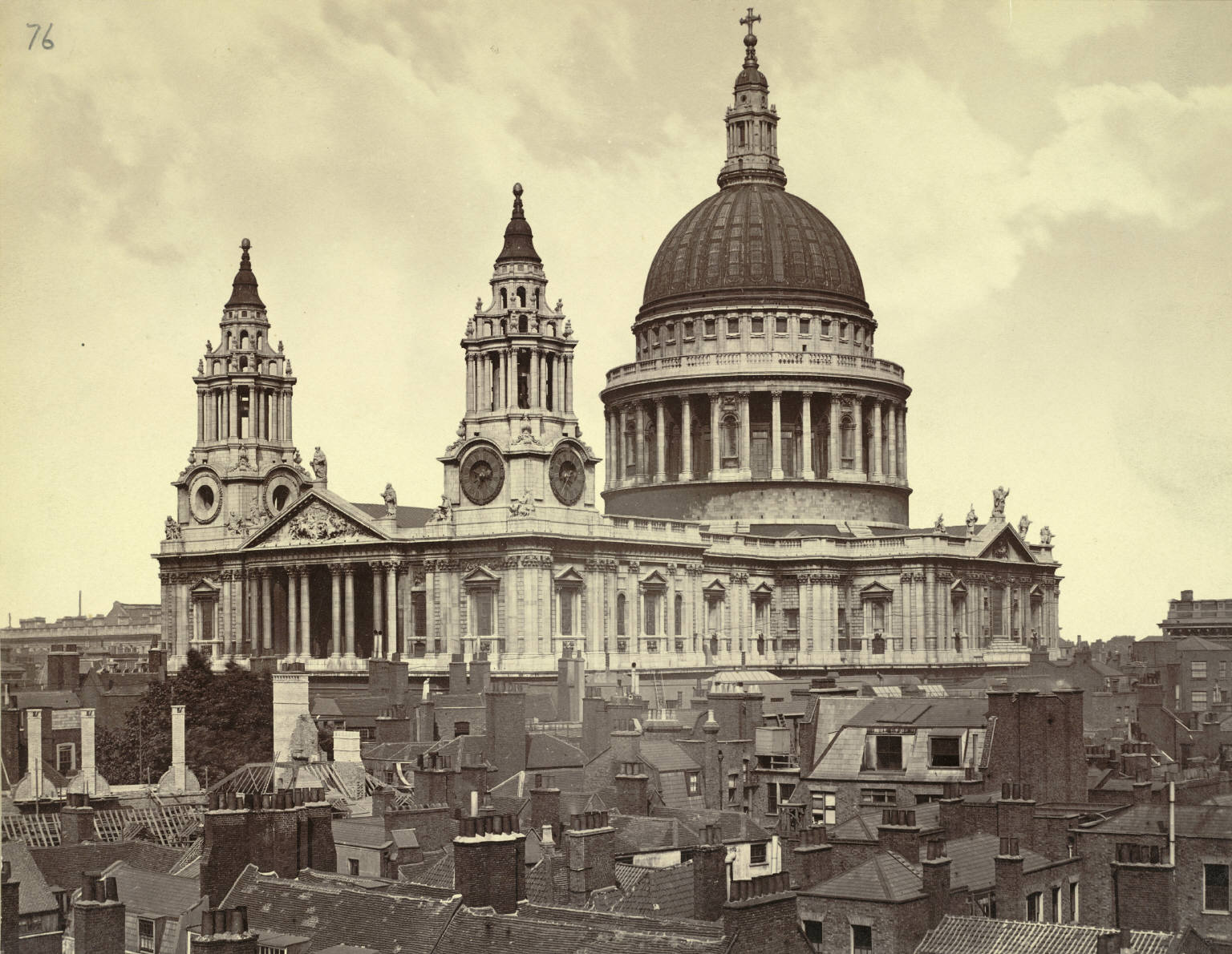 Collection: A. D. White Architectural Photographs, Cornell University Library Accession Number: 15/5/3090.01143 Title: Saint Paul's Cathedral, London Architect: Sir Christopher Wren (English, 1632-1723) Building Date: 1675-1710 Photograph date: ca. 1865-ca. 1885 Location: Europe: United Kingdom; London Materials: albumen print Image: 8 1/2 x 11 in.; 21.59 x 27.94 cm Style: Neo-Classical Provenance: Gift of Andrew Dickson White Persistent URI: There are no known copyright restrictions on this image. The digital file is owned by the Cornell University Library which is making it freely available with the request that, when possible, the Library be credited as its source. We had some help with the geocoding from Web Services by Yahoo! This image is from the Cornell University Library's The Commons Flickr stream. The Library has determined that there are no known copyright restrictions. This image was taken from Flickr's The Commons. The uploading organization may have various reasons for determining that no known copyright restrictions exist, such as: The copyright is in the public domain because it has expired; The copyright was injected into the public domain for other reasons, such as failure to adhere to required formalities or conditions; The institution owns the copyright but is not interested in exercising control; or The institution has legal rights sufficient to authorize others to use the work without restrictions. More information can be found at Please add additional copyright tags to this image if more specific information about copyright status can be determined. See Commons:Licensing for more information.No known copyright restrictionsNo restrictions